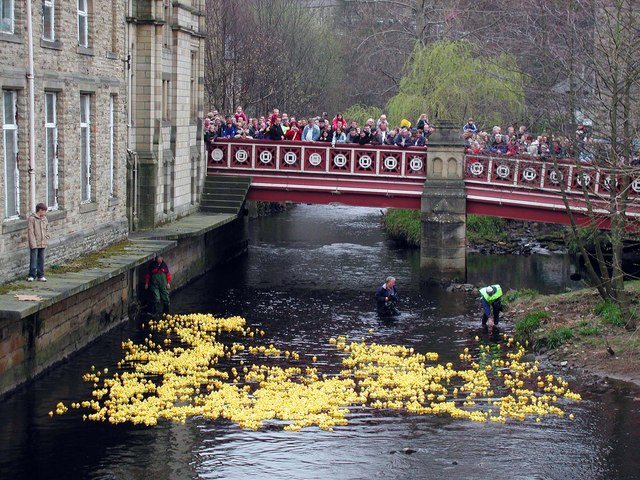 Hebden Bridge Duck Race The 15th annual duck race at Hebden Bridge, shortly after the off. Spectators cheer on their favourites from St. George's Street Bridge as thousands of tiny plastic ducks are shepherded down Hebden Water to West End Bridge. The eventual winner in the all-yellow strip was a rank outsider named 'Duck Number 4105'.